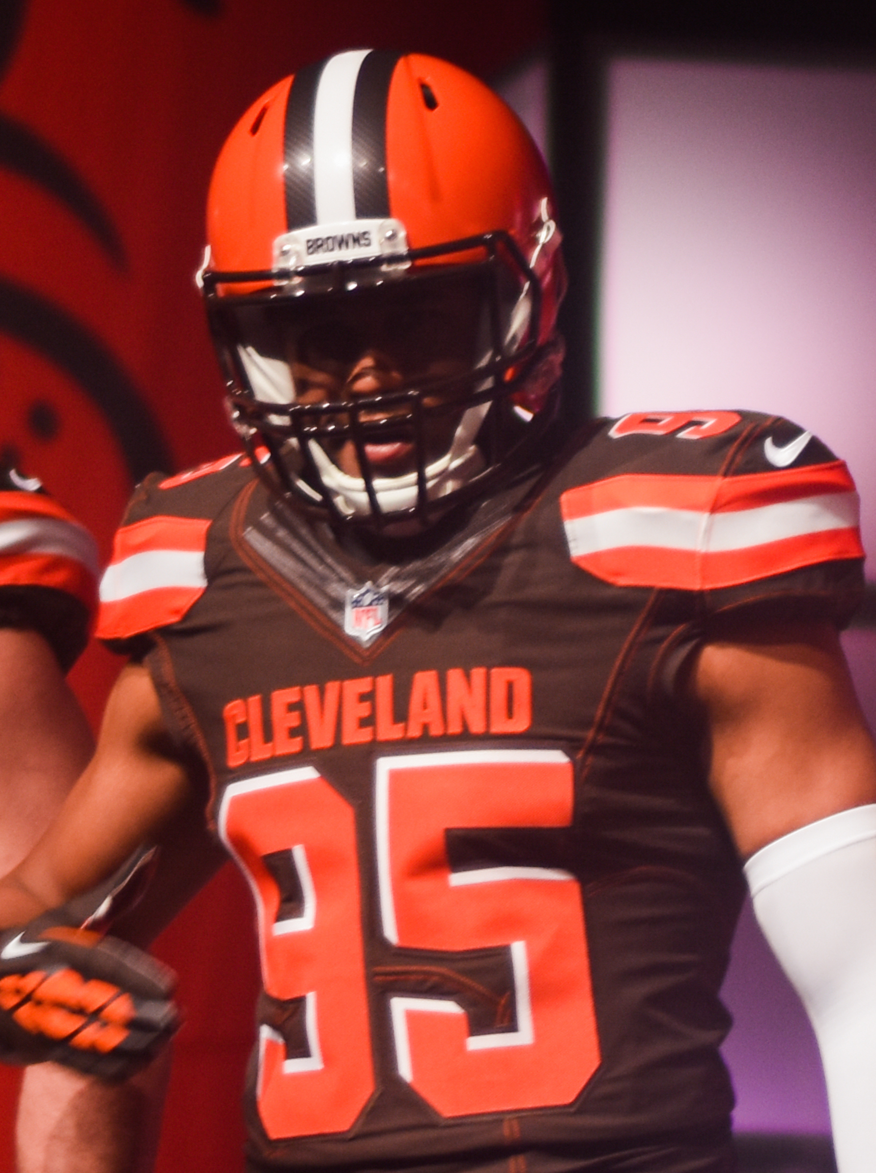 Cleveland Browns New Uniform Unveiling